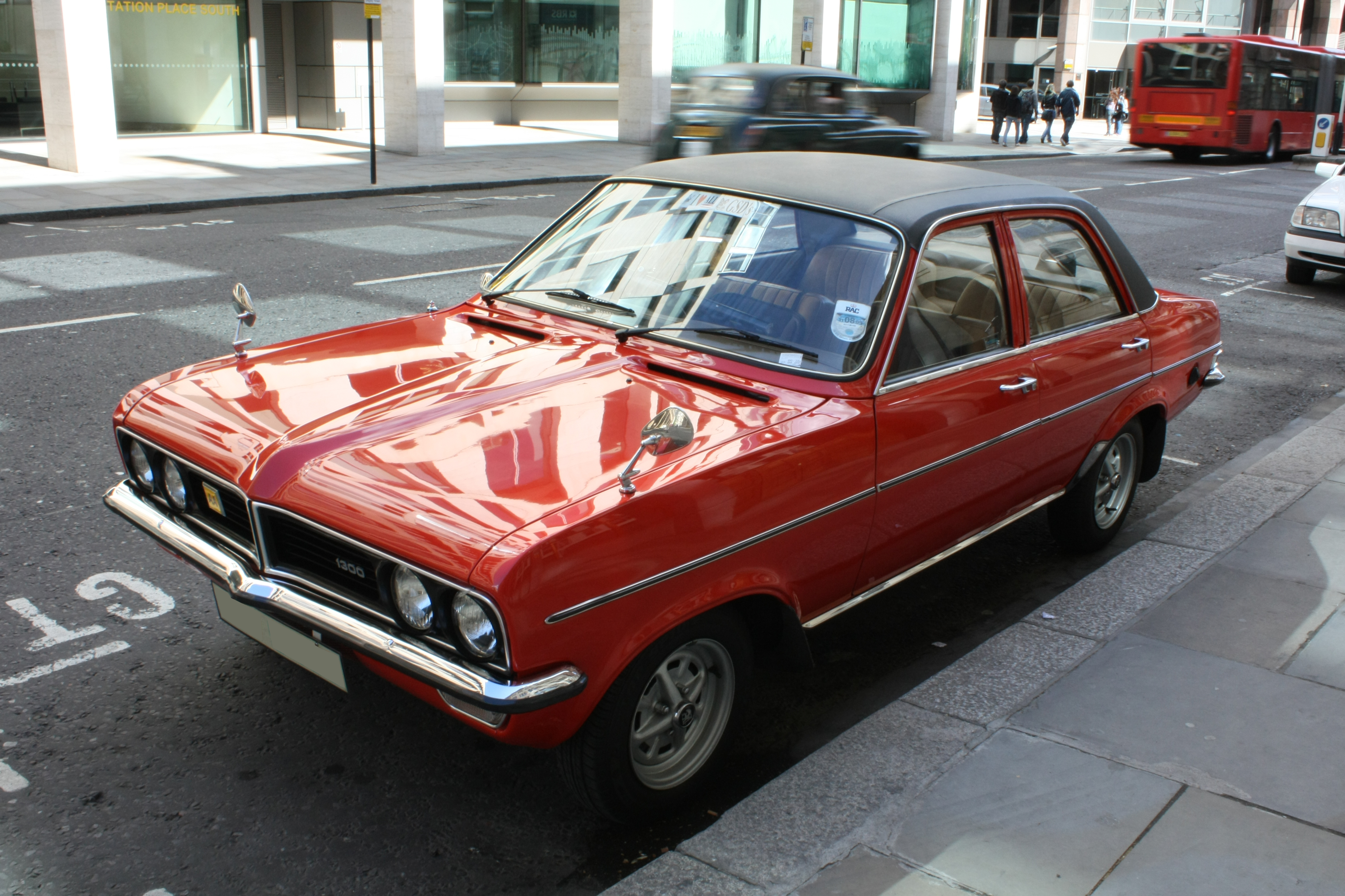 Vauxhall HC Viva 1300 GLS, note twin headlights